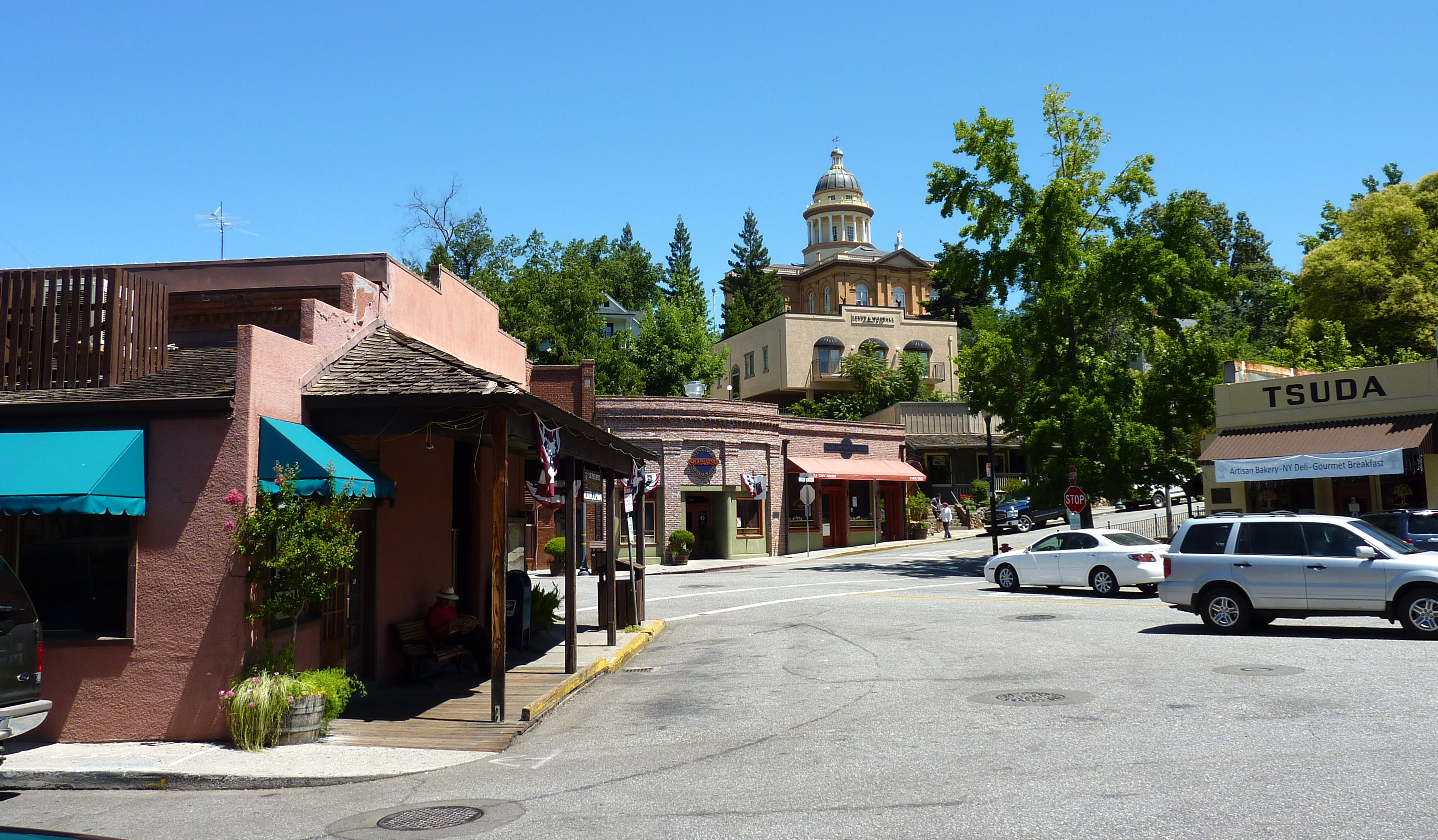 Old Town Auburn, California, USA.